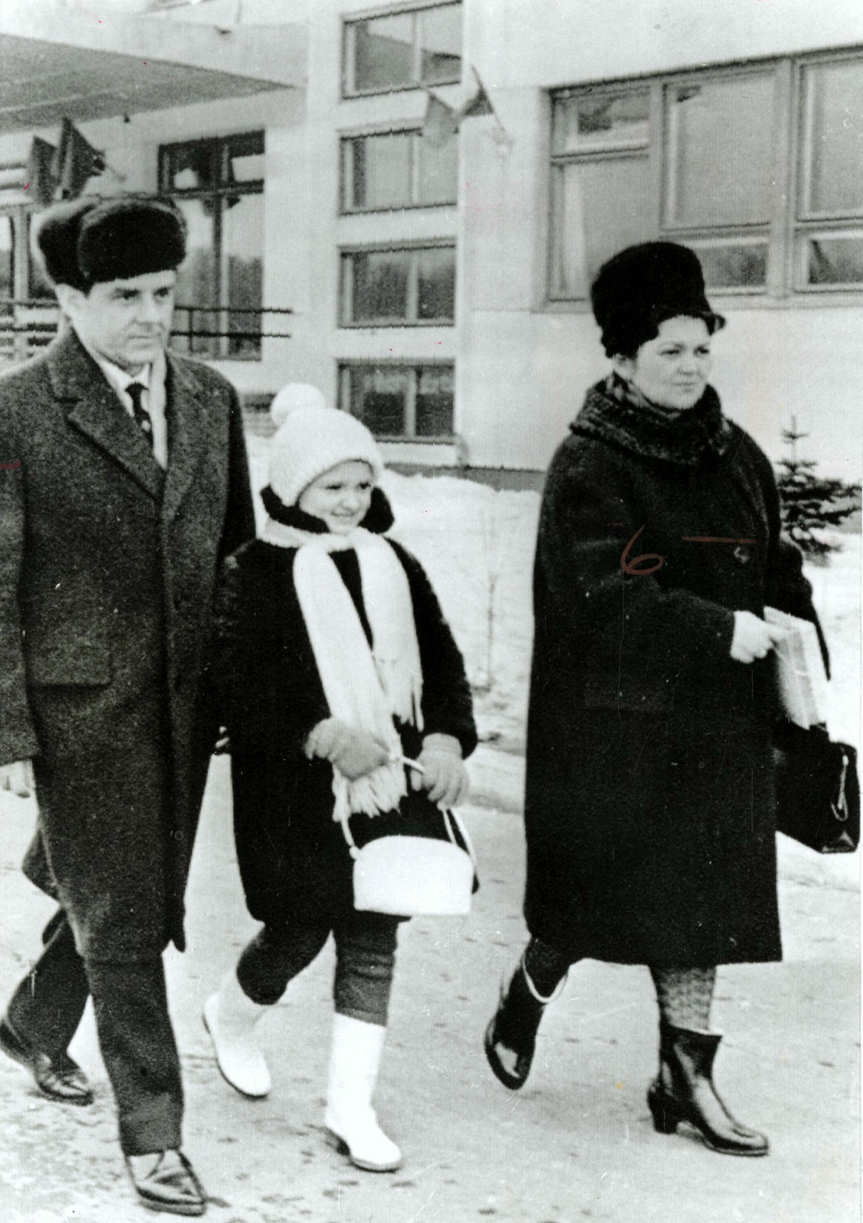 Creator: United Press International Subject: Komarov, Vladimir Mikhailovich 1927-1967 Komarov, Valentina Type: Black-and-White Prints Topic: Astronauts Local number: SIA Acc. 90-105 [SIA-SIA2008-4943] Summary: Soviet cosmonaut Vladimir Mikhaylovich Komarov (1927-1967) and his wife Valentina Komarov, and their daughter Irina, 1967. Komarov was killed while trying to land his spacecraft on April 24, 1967. Cite as: Acc. 90-105 - Science Service, Records, 1920s-1970s, Smithsonian Institution Archives Persistent URL: Link to data base record Repository: Smithsonian Institution Archives View more collections from the Smithsonian Institution.